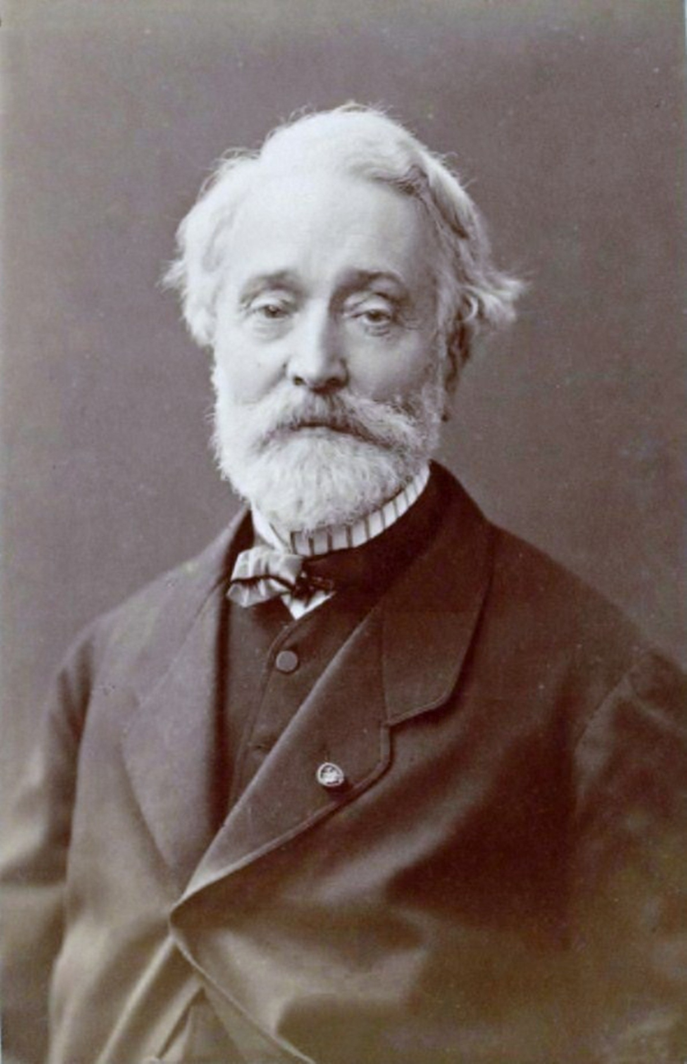 Jules Diéterle (1811-1889) is a theater designer, head of the works of art at the Manufacture de Sèvres and painter. Photograph of Jules Diéterle, demonstration print by Atelier Nadar.